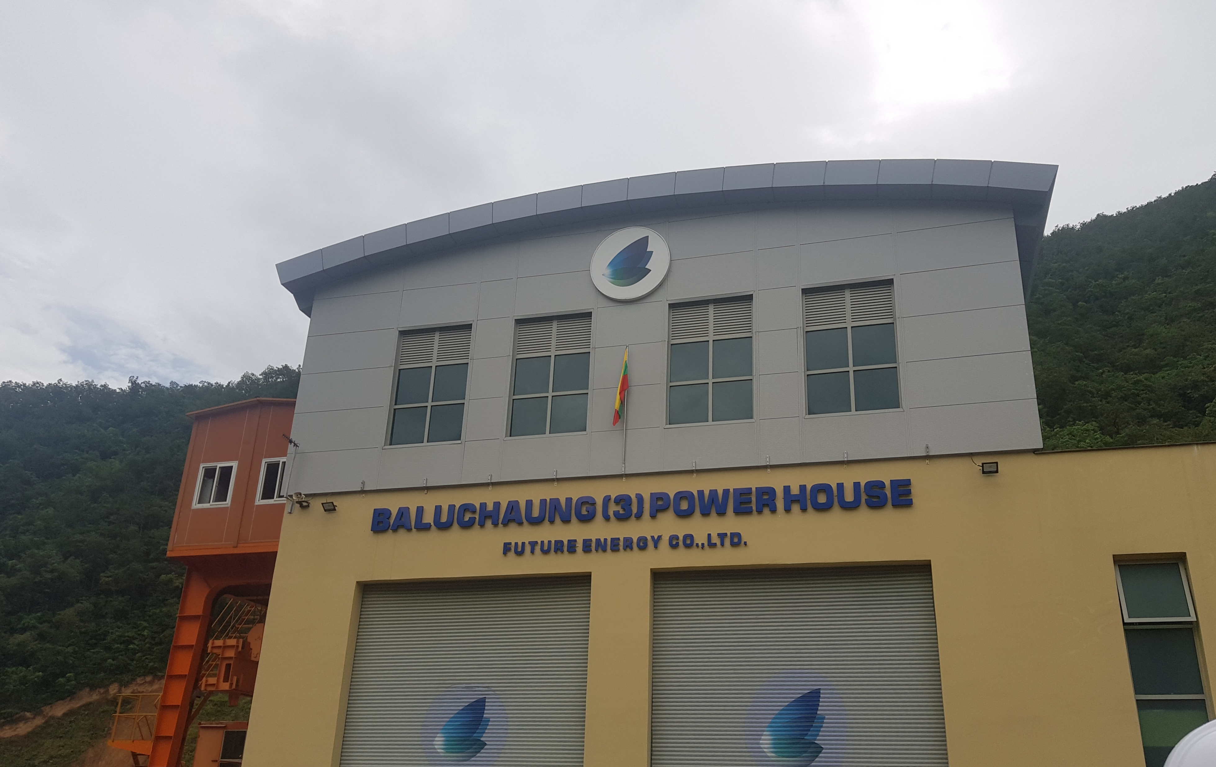 The Baluchaung 3 Hydropower station in loikaw.